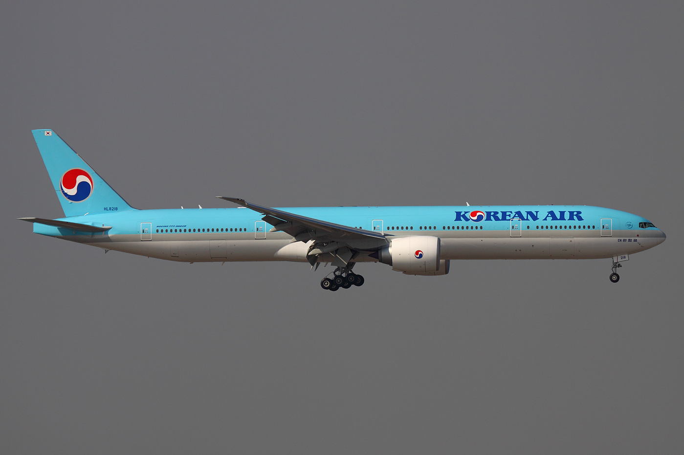 A Korean Air Boeing 777-3B5/ER on short final to Chep Lap Kok International Airport (HKG / VHHH)